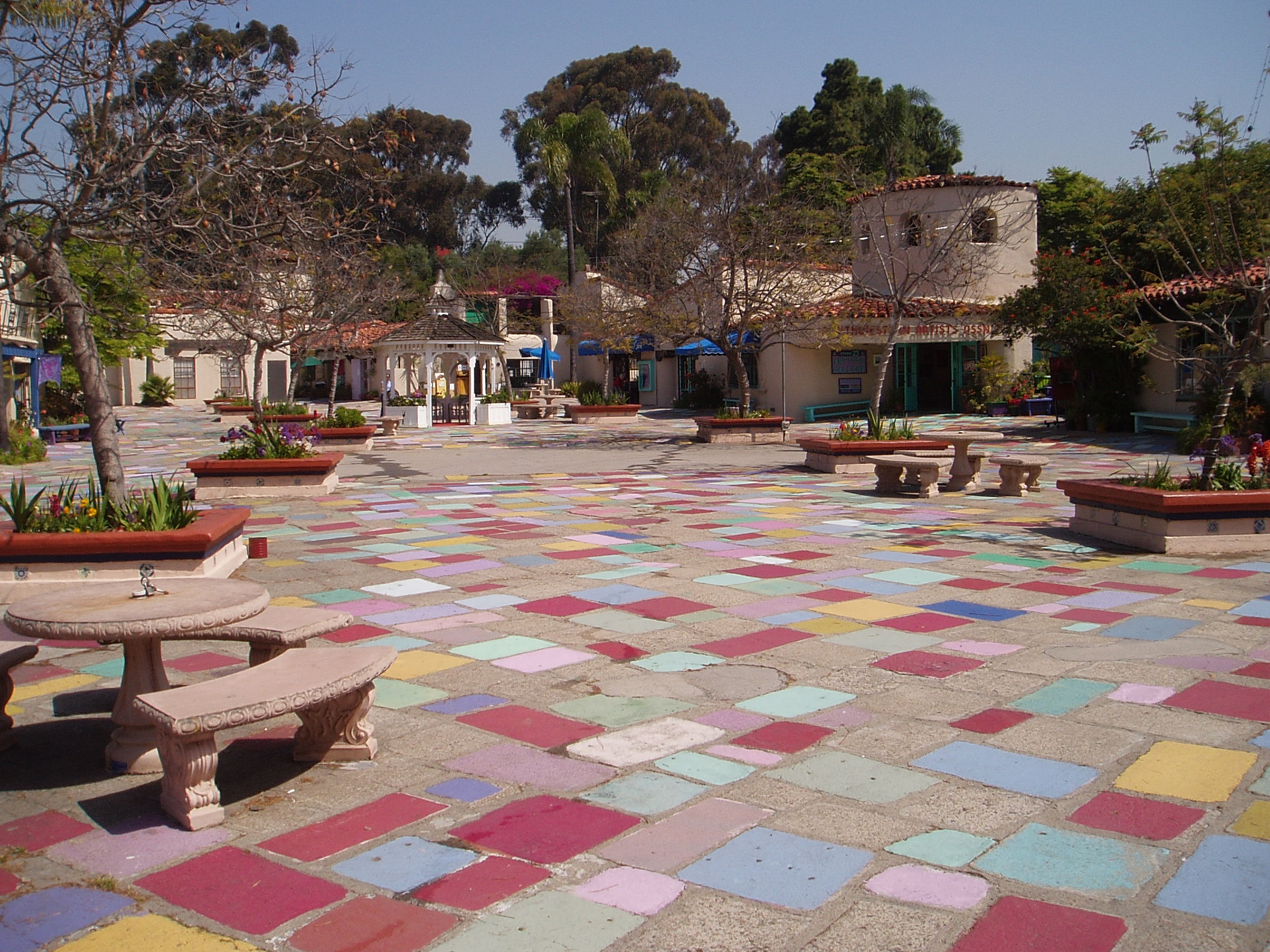 Balboa Park